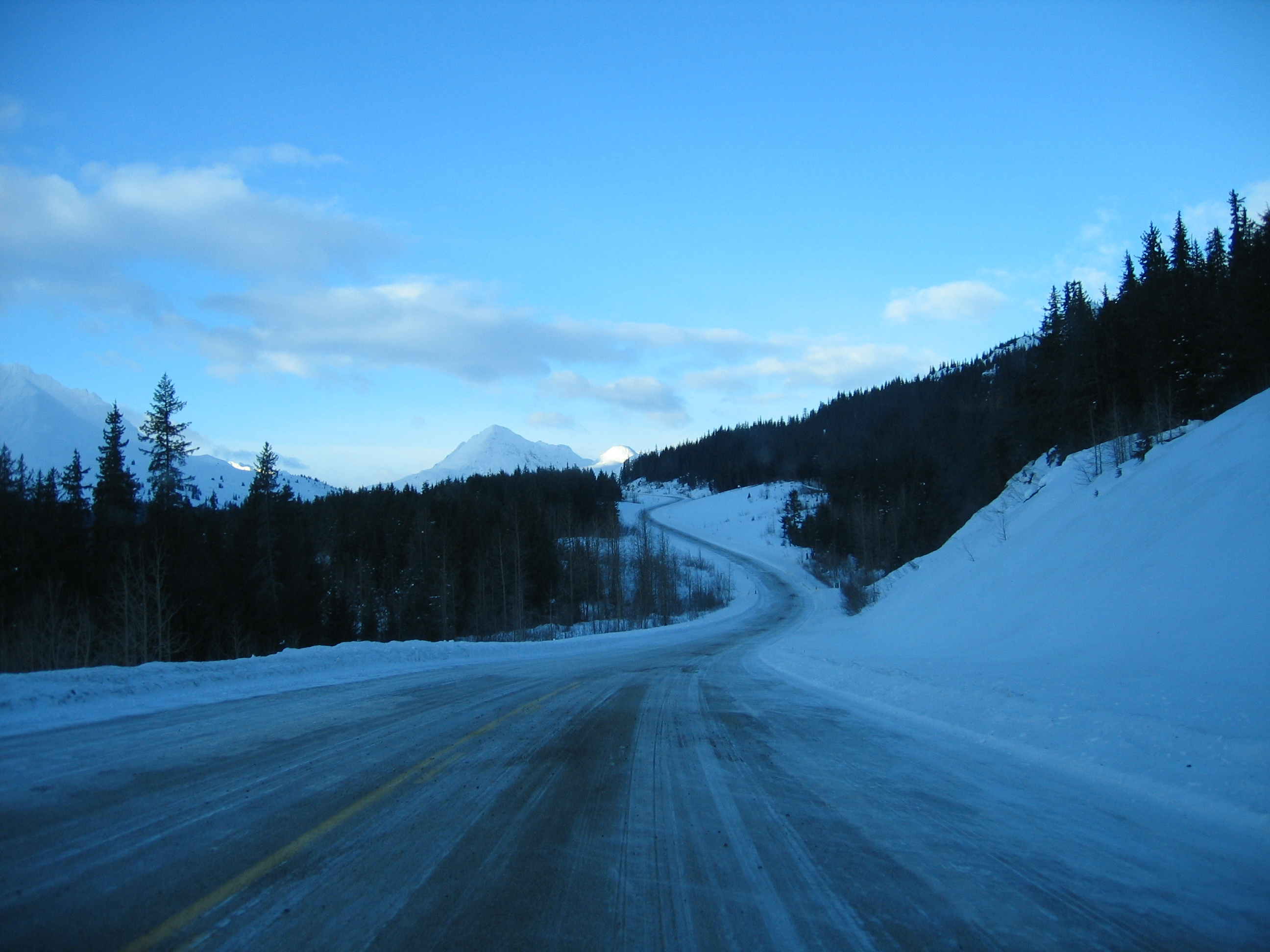 Photo by Micah Bochart, Haines Highway Mile 46 in British Columbia